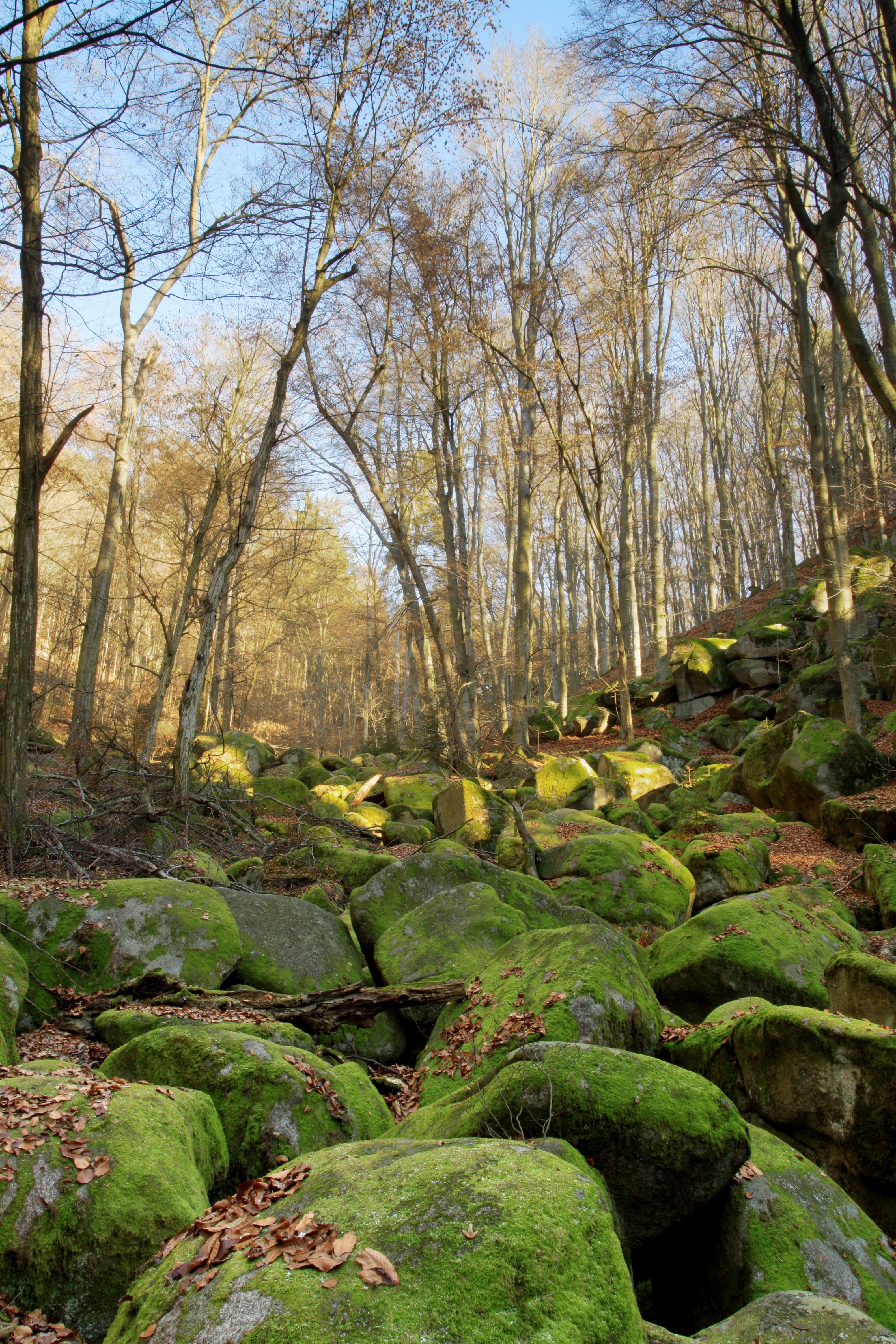 Rock formation in natural monument Vlčí rokle near Prosečnice village in Benešov District, Czech Republic